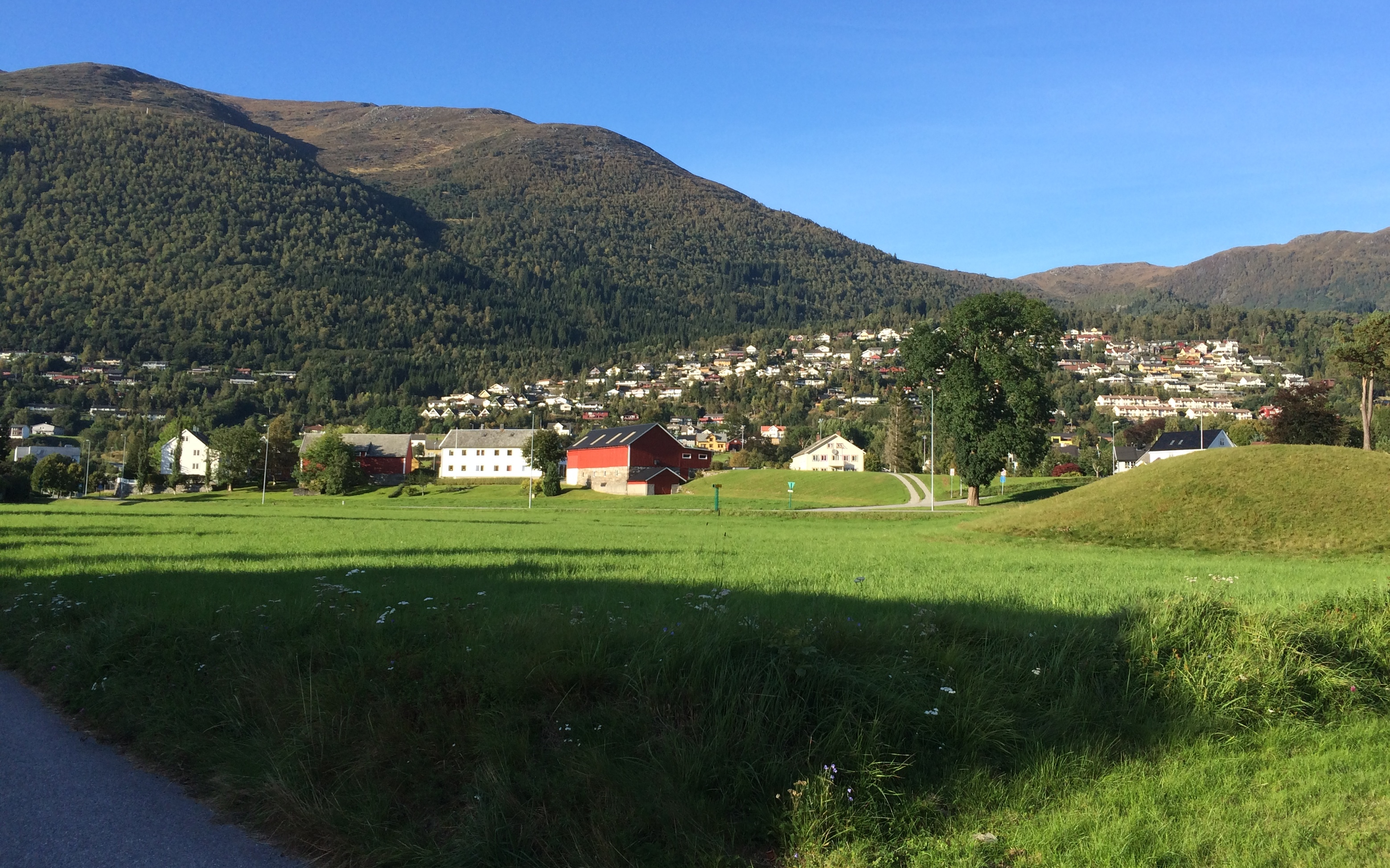 Myklebuståsen, Nordfjordeid, Sogn og Fjordane, Norway, 2014-09-17